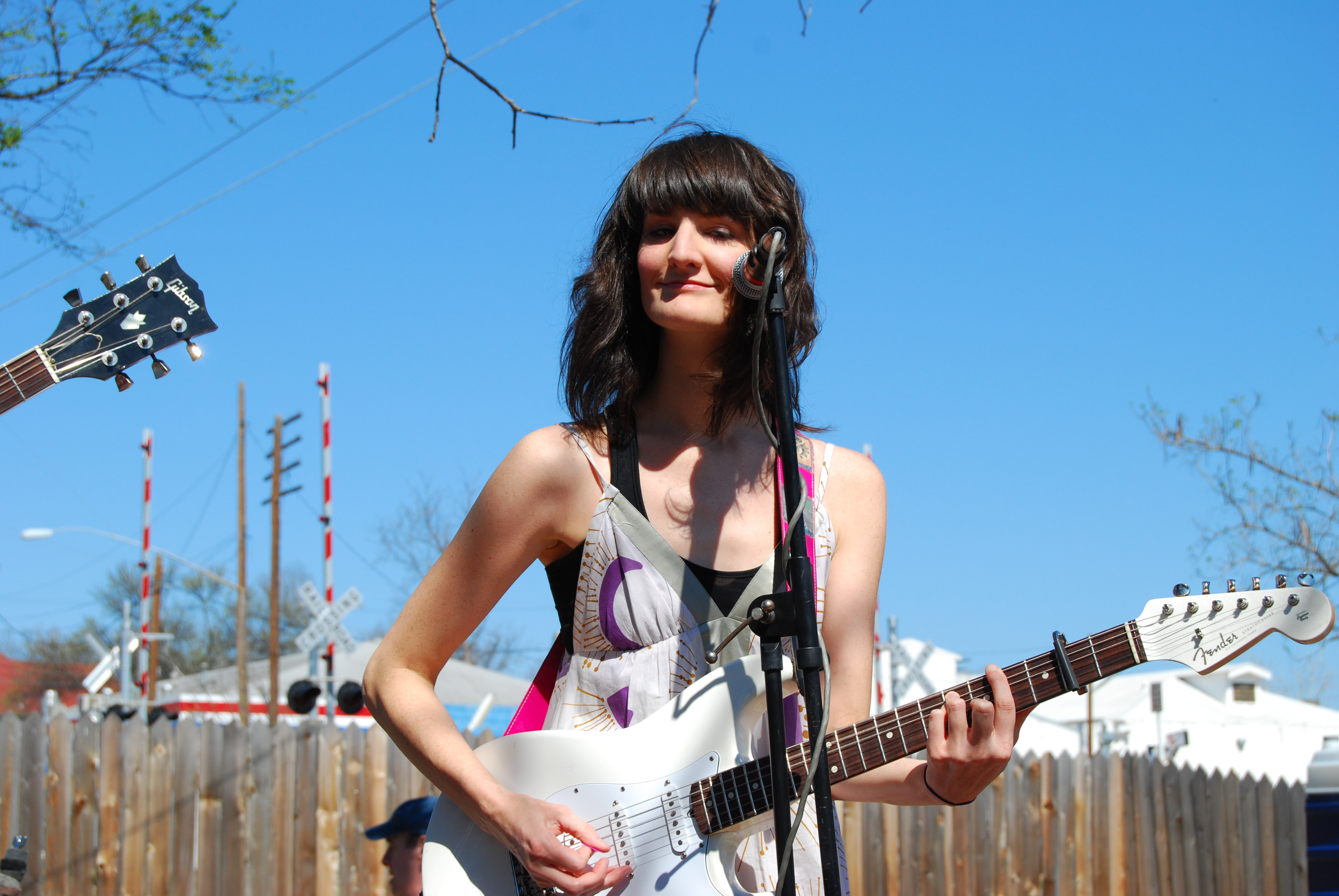 Pink Nasty performing at the Scoot Inn, SXSW, March 12, 2008